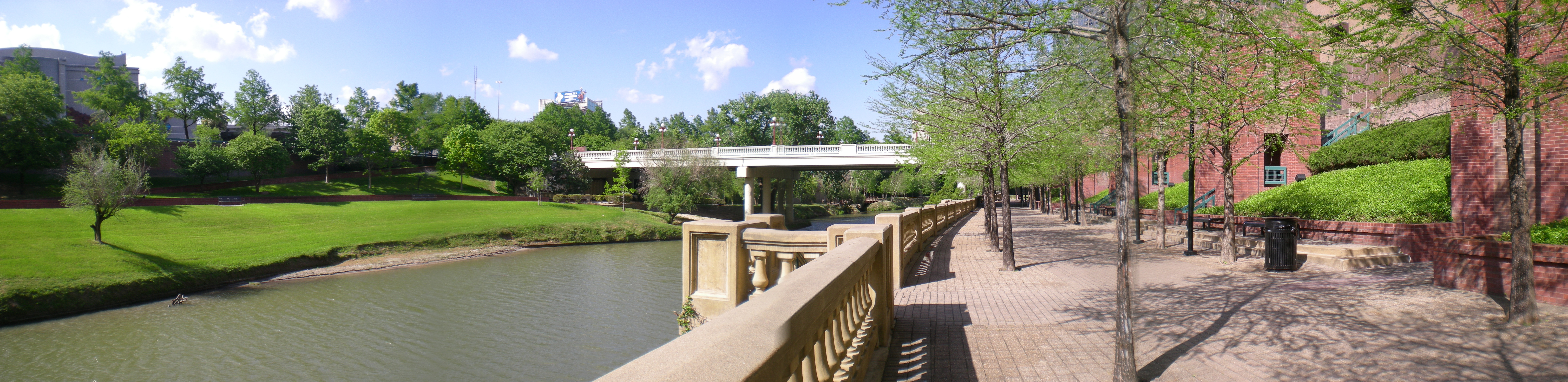 Buffalo Bayou traversing through Sesquicentennial Park in Downtown Houston